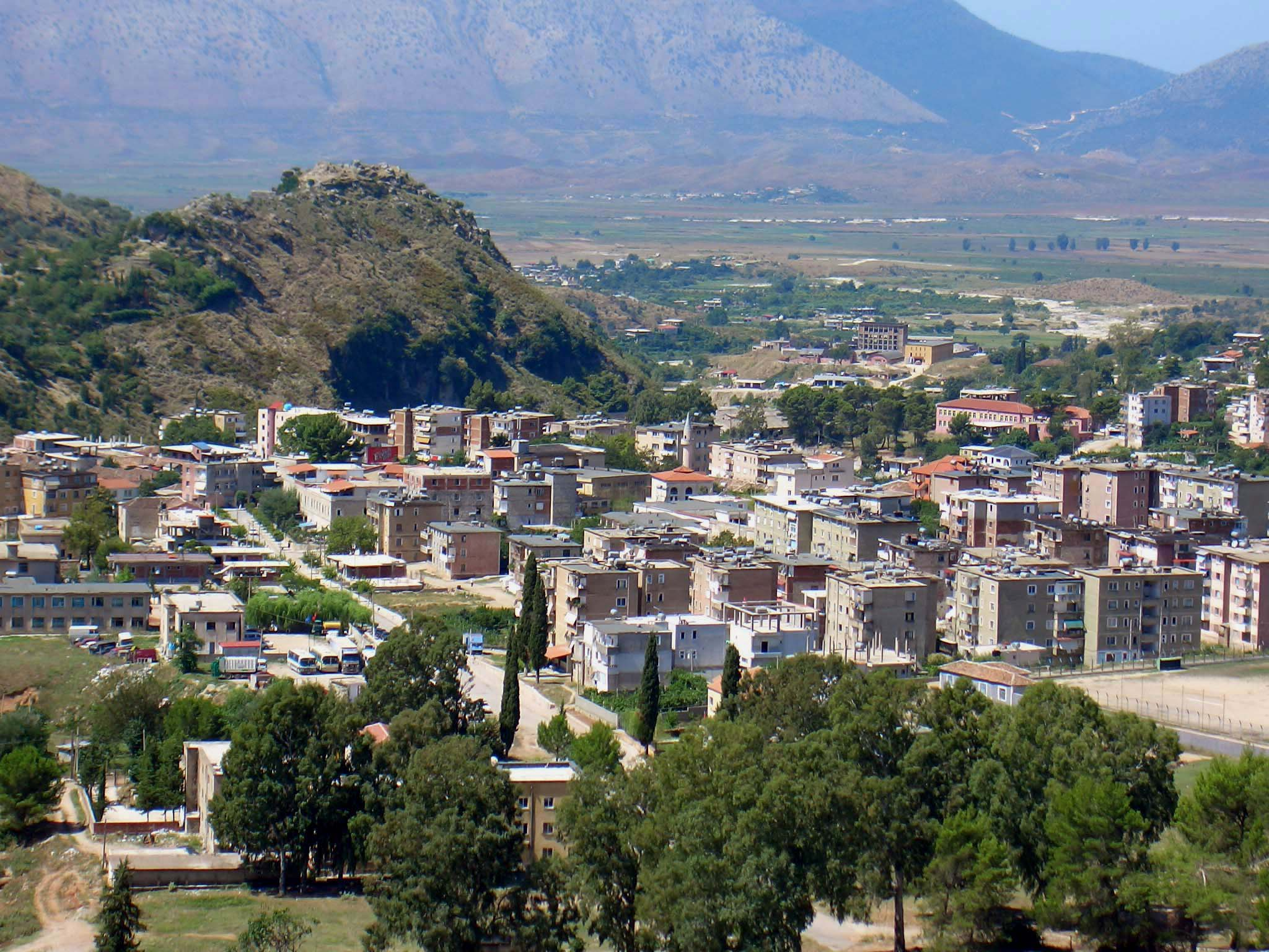 View over Delvina in Albania from northeast